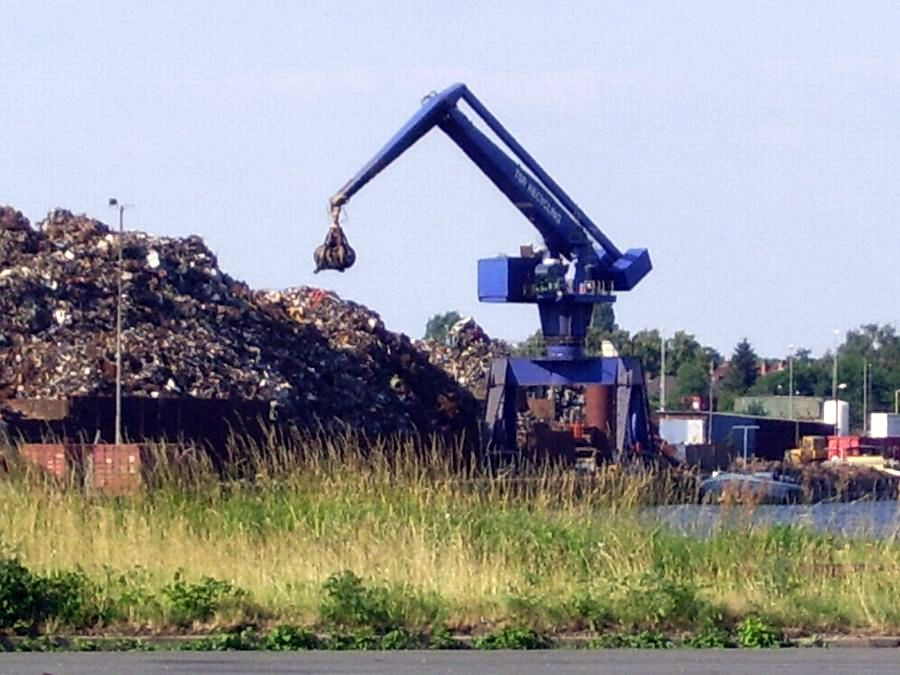 The TSR-terminal in the industrial port of Bremen.